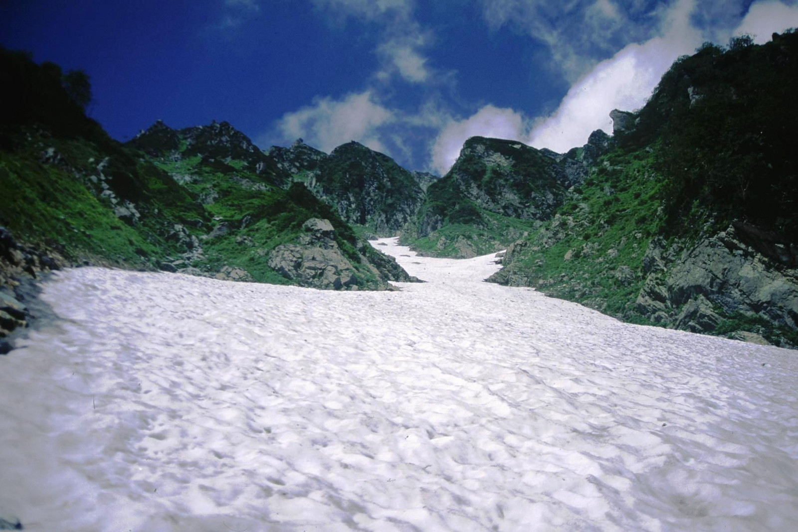 Mount Tate from Raiden Station